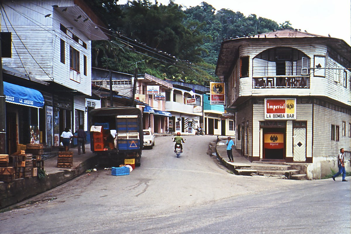 Main street in Golfito, Puntarenas, Costa Rica